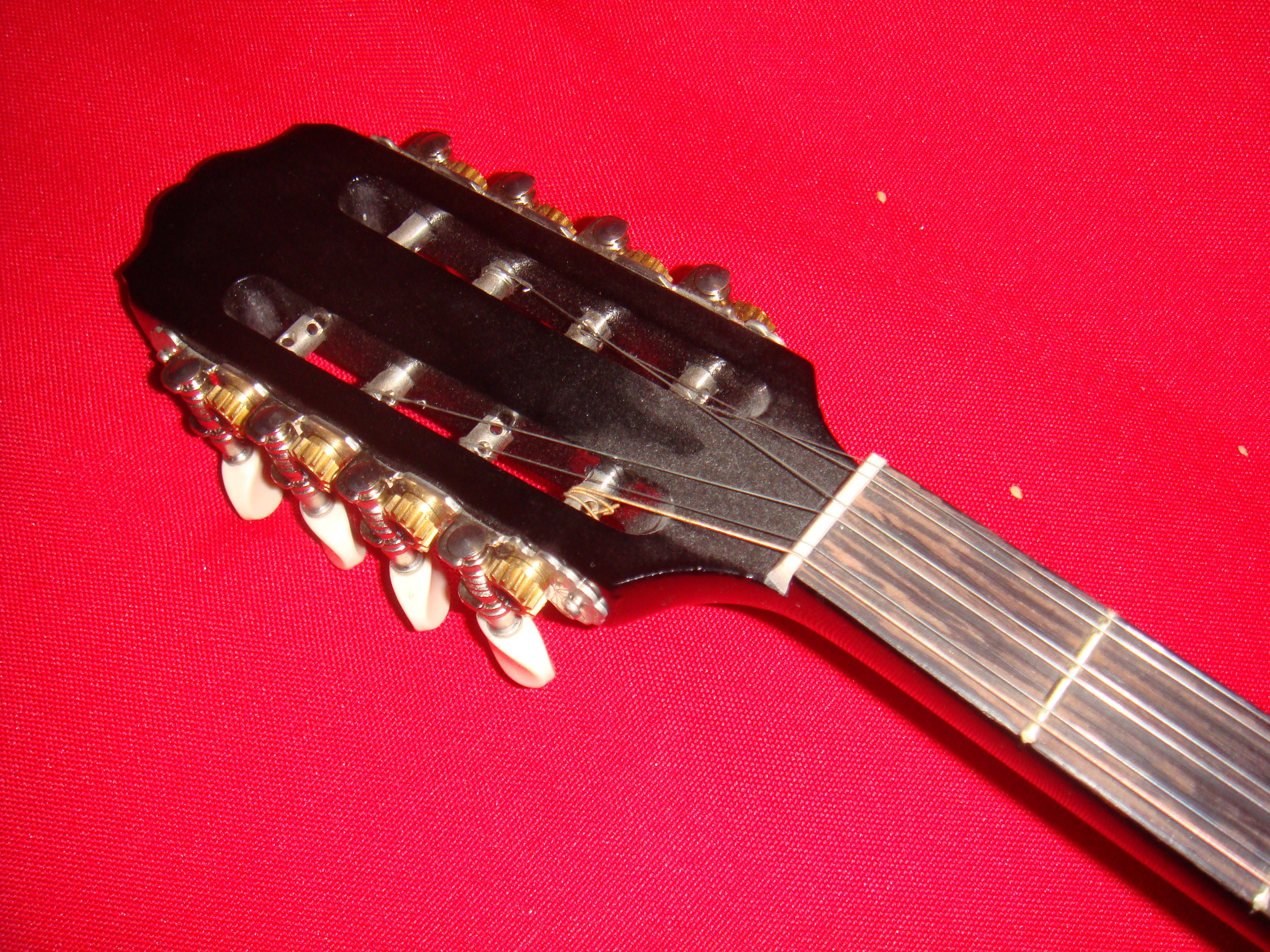 Typical 3-string (trichordon/τρίχορδο) bouzouki with 8 tuners but 6 strings